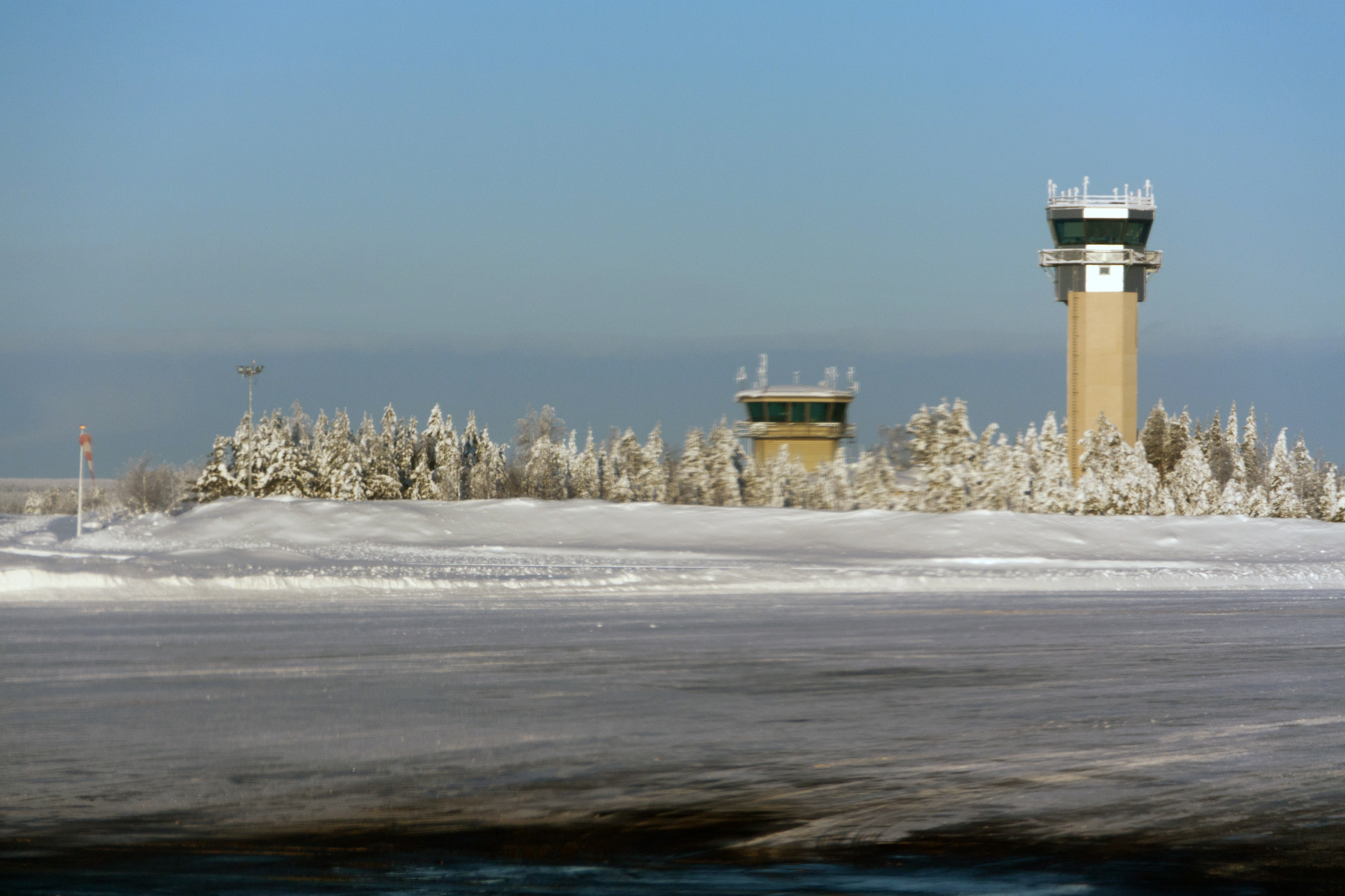 Rovaniemi Airport control tower